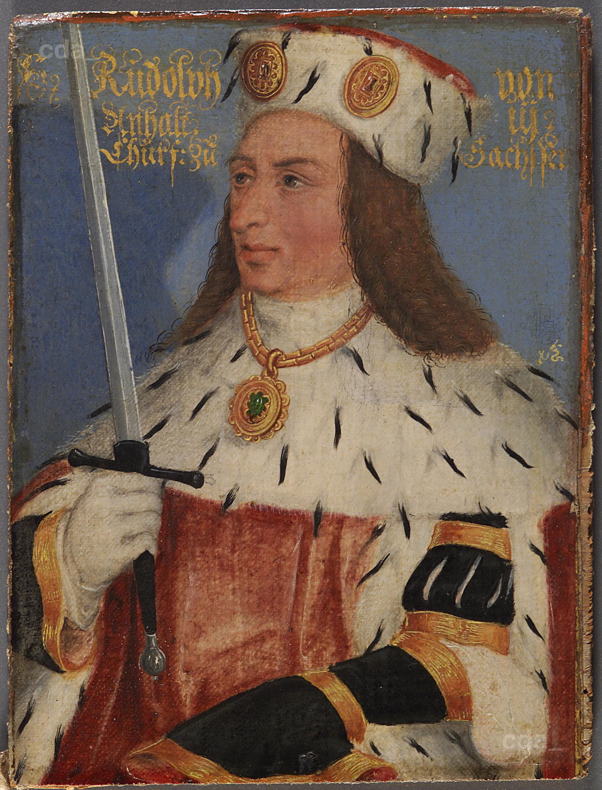 Rudolf III., Elector, son of Wenzeslaus, died 1419 The portraits by Cranach the Younger have a uniform blue background and a cast-shadow to one side of the sitter. As such they stand out from the other works in the series. Furthermore all 48 images are painted on canvas and not paper. They were later laminated onto wood and in isolated cases cardboard. The very uniform appearance of the reverse of all the portraits belonging to the series suggests that they were attached to the auxiliary support after entering the Ambras collection. Kunsthistorisches Museum, Vienna